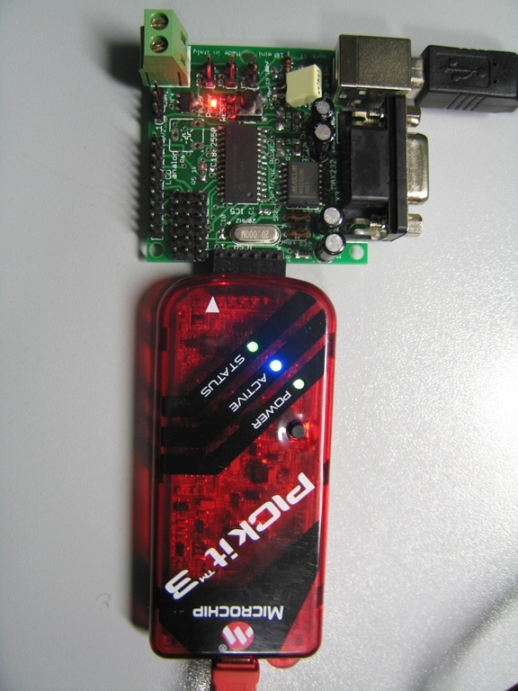 The last version of Micro-GT is Micro-GT 18 mini with a 18F2550 or better performance enhanced 18 family MCU. It was develop in Italy from the January 2014.